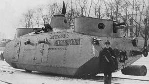 Soviet armoured motor rail car MBV D-2 as used by the NKVD security detachments